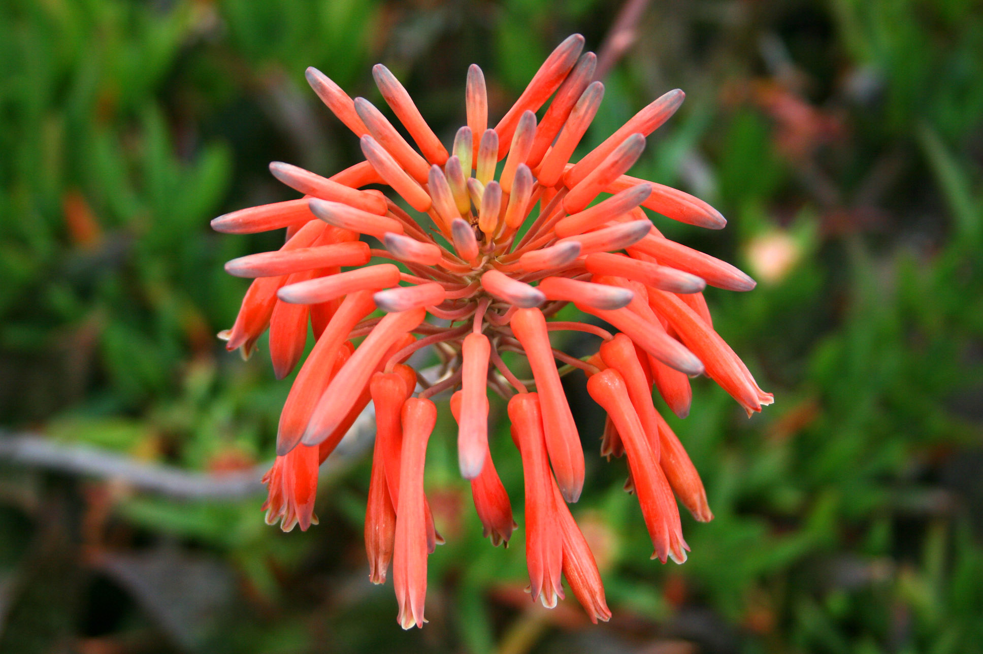 Flower of Aloe maculata also known as Soap Aloe, Zebra Aloe or African Aloe - Habit: L'Île-Rousse ( Haute-Corse) - France. Walon: Fleûr d’ Aloès tchaborè (Aloe maculata) - Place: L'Île-Rousse (Ôte-Corse) - France.